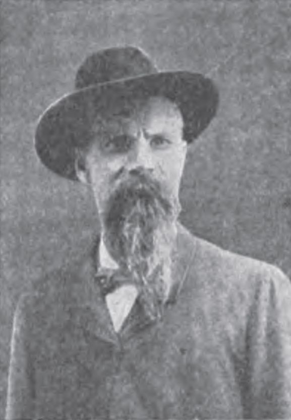 Union Army Private Nicholas Bouquet (or Boquet) of the 1st Iowa Infantry received the Medal of Honor for his actions in the American Civil War.